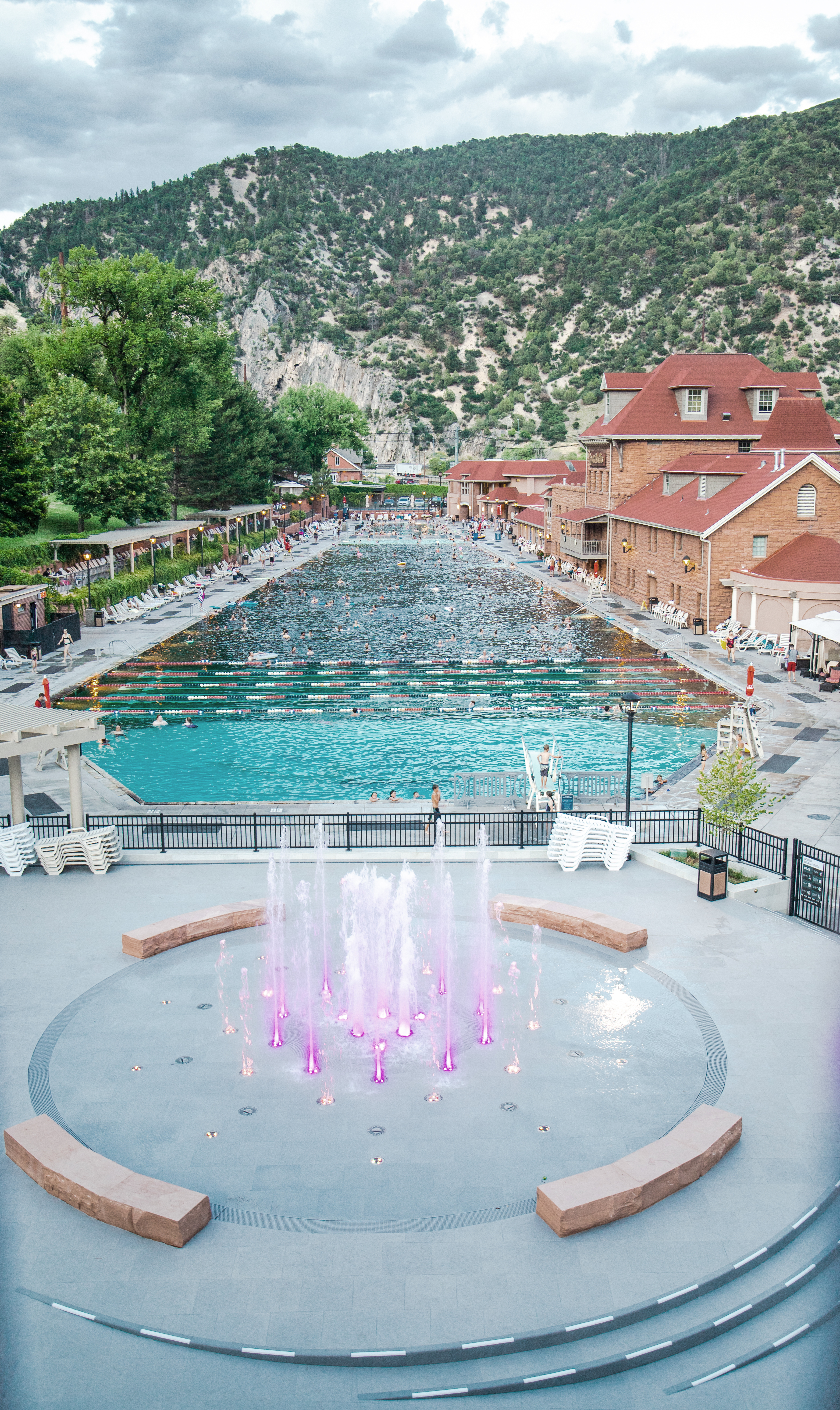 World's largest hot springs, located in Glenwood Springs, Colorado.